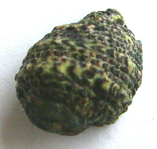 Haustrum scobina, synonym: Lepsiella scobina scobina,, dredged from north of Pakiri, New Zealand.